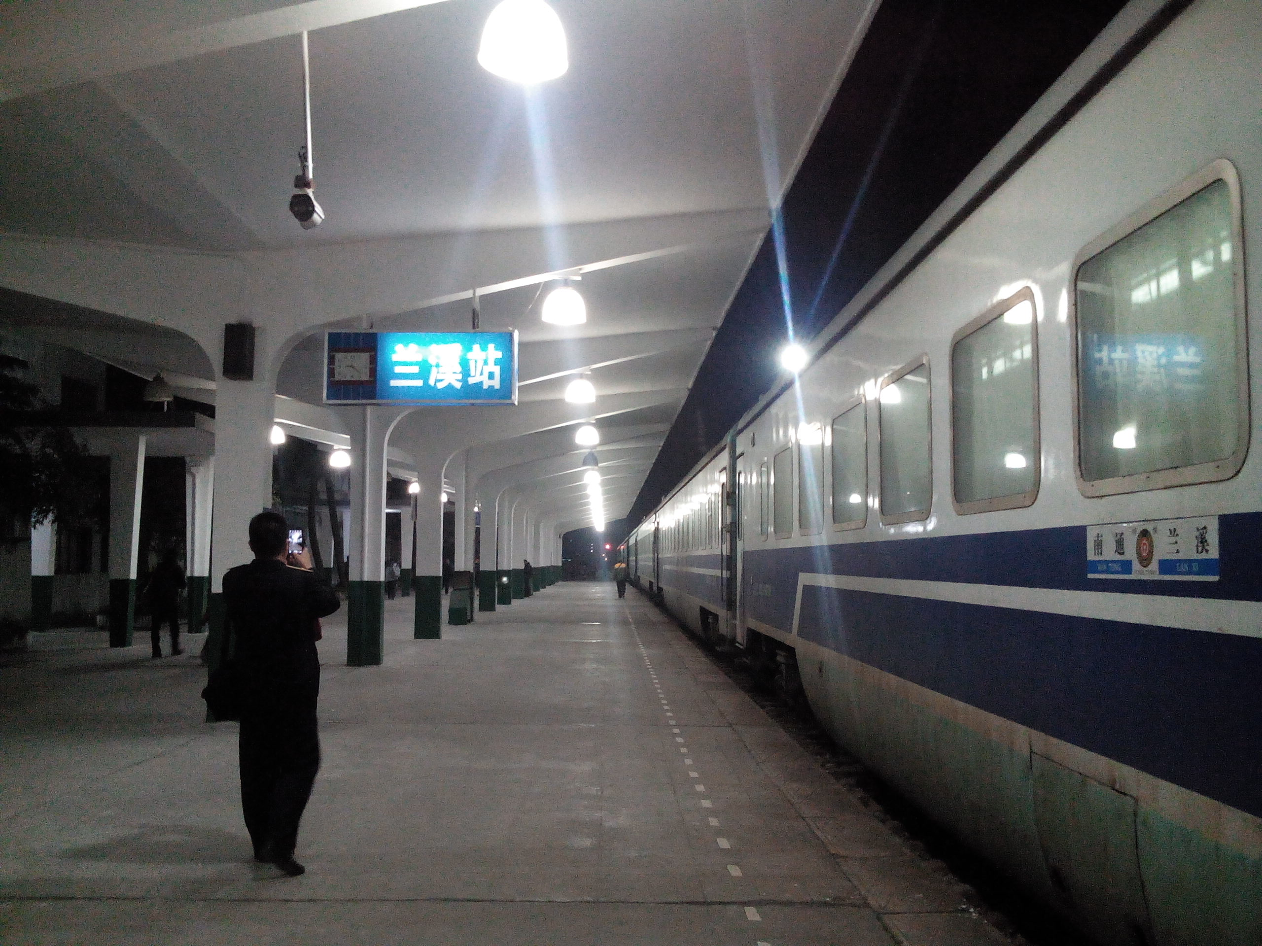 T7785 at Lanxi Railway Station